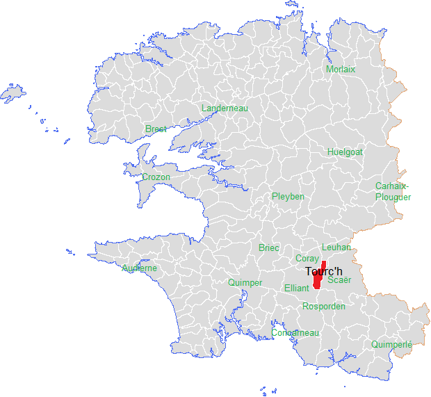 placement Tourc'h in departement Finistère